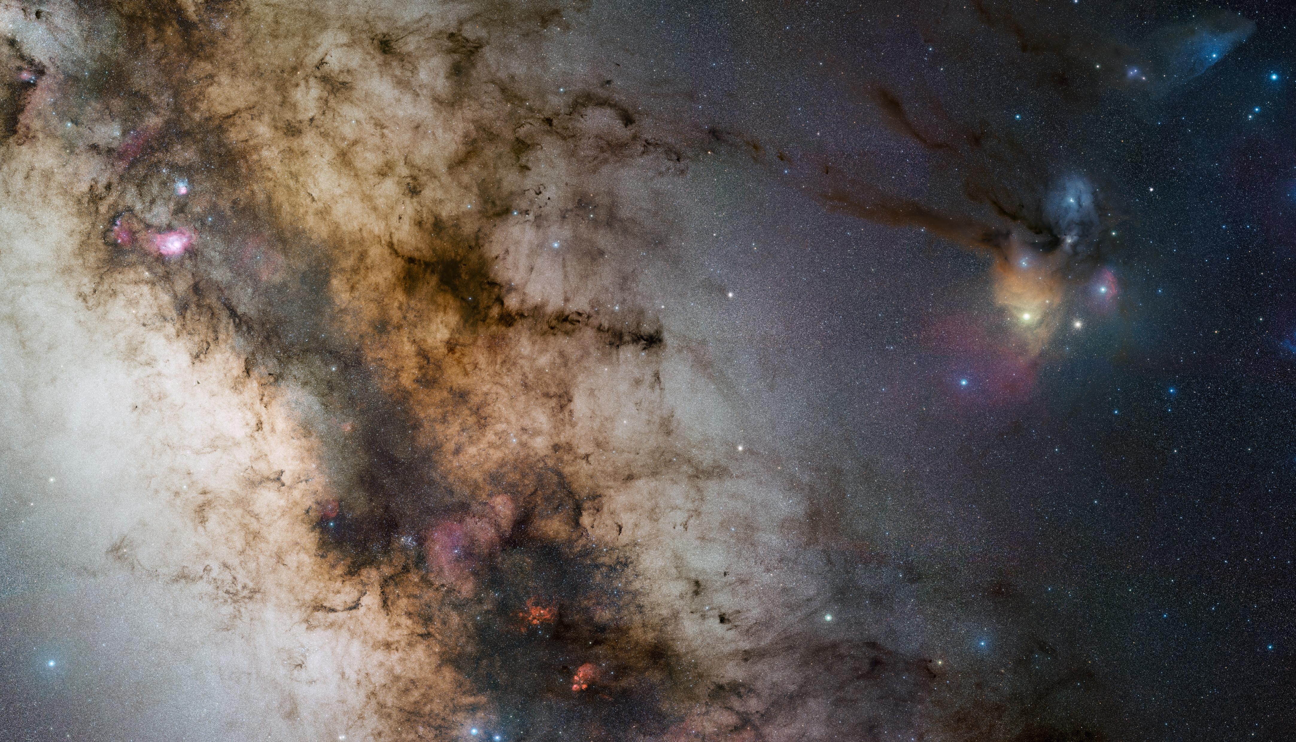 Taken by Stéphane Guisard, an ESO engineer and world-renowned astrophotographer, from Cerro Paranal, home of ESO’s Very Large Telescope, this image directly benefits from the quality of Paranal’s sky, one of the best on the planet. The image shows the region spanning the sky from the constellation of Sagittarius (the Archer) to Scorpius (the Scorpion). The very colourful Rho Ophiuchi and Antares region features prominently to the right, as well as much darker areas, such as the Pipe and Snake Nebulae. The dusty lane of our Milky Way runs obliquely through the image, dotted with remarkable bright, reddish nebulae, such as the Lagoon and the Trifid Nebulae, as well as NGC 6357 and NGC 6334. This dark lane also hosts the very center of our Galaxy, where a supermassive black hole is lurking. The image was obtained by observing with a 10-cm Takahashi FSQ106Ed f/3.6 telescope and a SBIG STL CCD camera, using a NJP160 mount. Images were collected through three different filters (B, V and R) and then stitched together. This mosaic was assembled from 52 different sky fields made from about 1200 individual images totalling 200 hours exposure time, with the final image having a size of 24 403 x 13 973 pixels. Note that the final, full resolution image is only available through Stéphane Guisard. #L